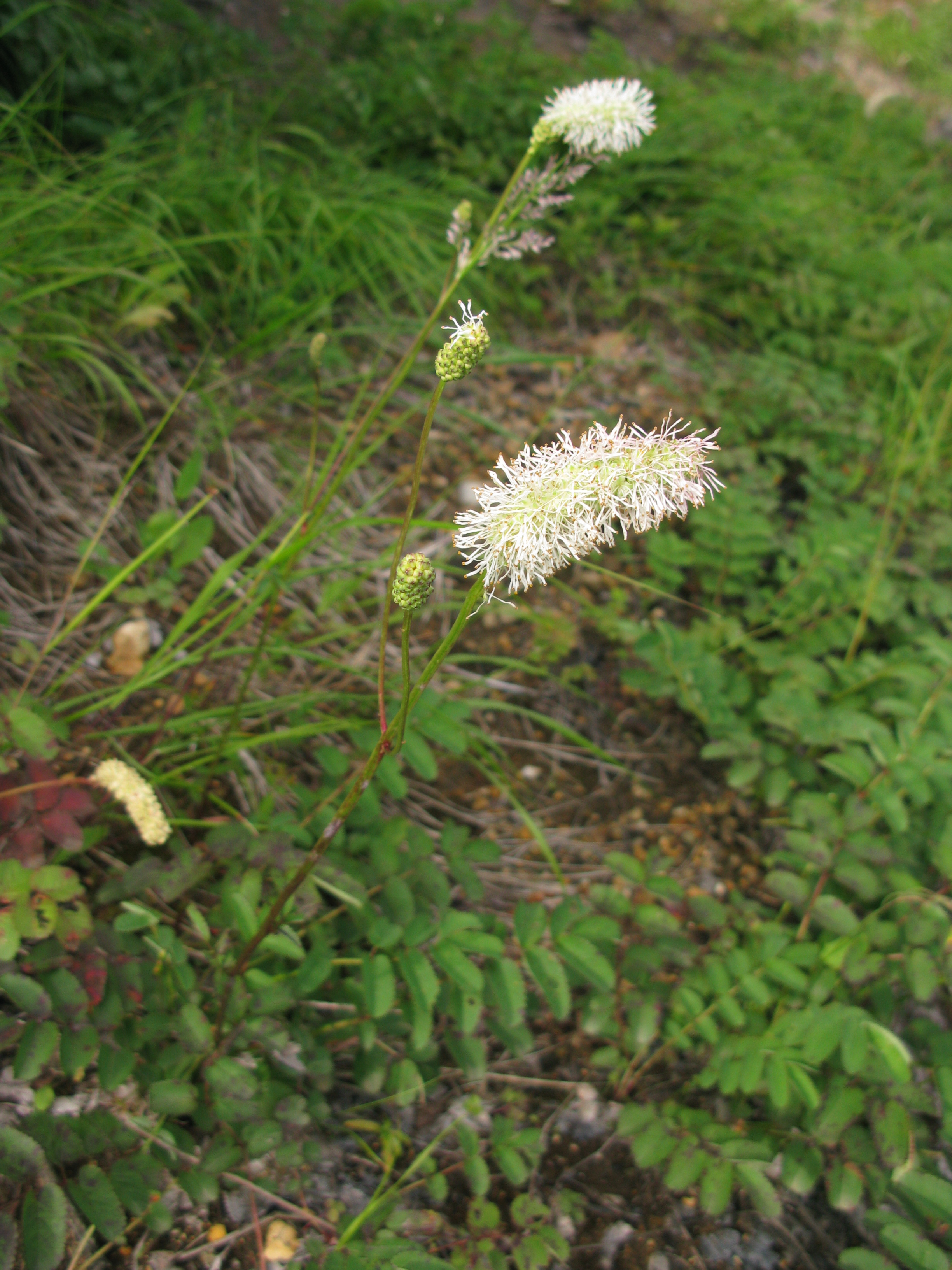 Sanguisorba albiflora, Mount Zaō, Yamagata pref., Japan